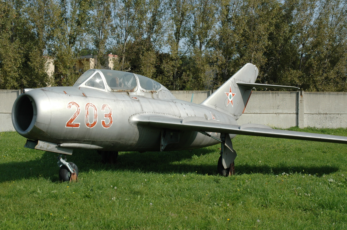 MiG-15UTI in the Museum of Hungarian Air Force (Szolnok, Hungary)